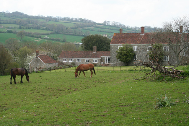 Membury: Yarty Farm. In the Yarty valley, looking north west. Seen from the footpath from Beckford Bridge